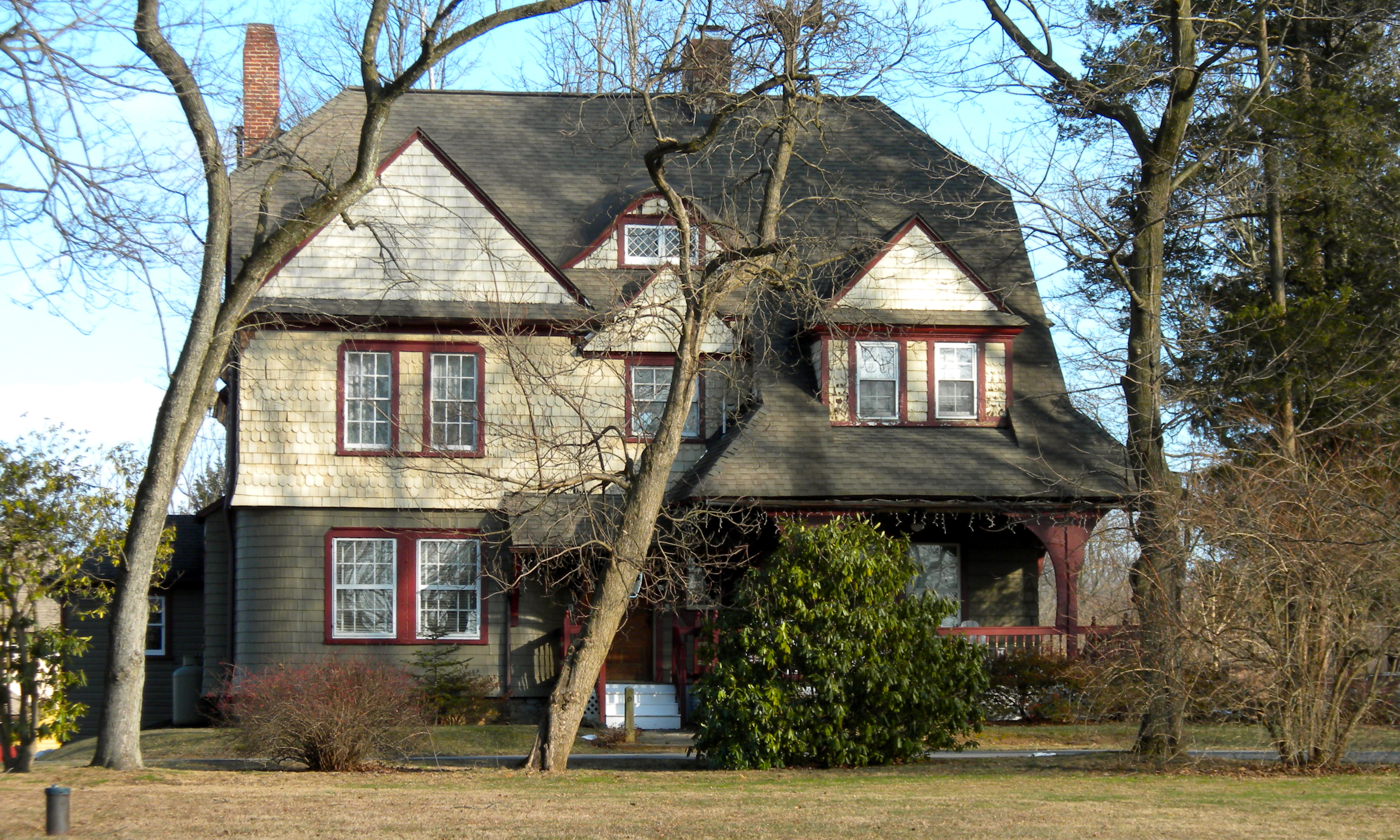 Kinbawn a house on the NRHP. 405 Highland Avenue, West Whiteland Township, Chester County, Pennsylvania off Boot Road 40°0′11″N 75°39′9″W